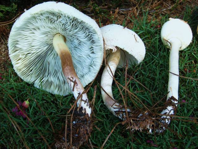 Chlorophyllum molybdites